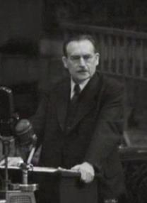 Willem Drees in 1951